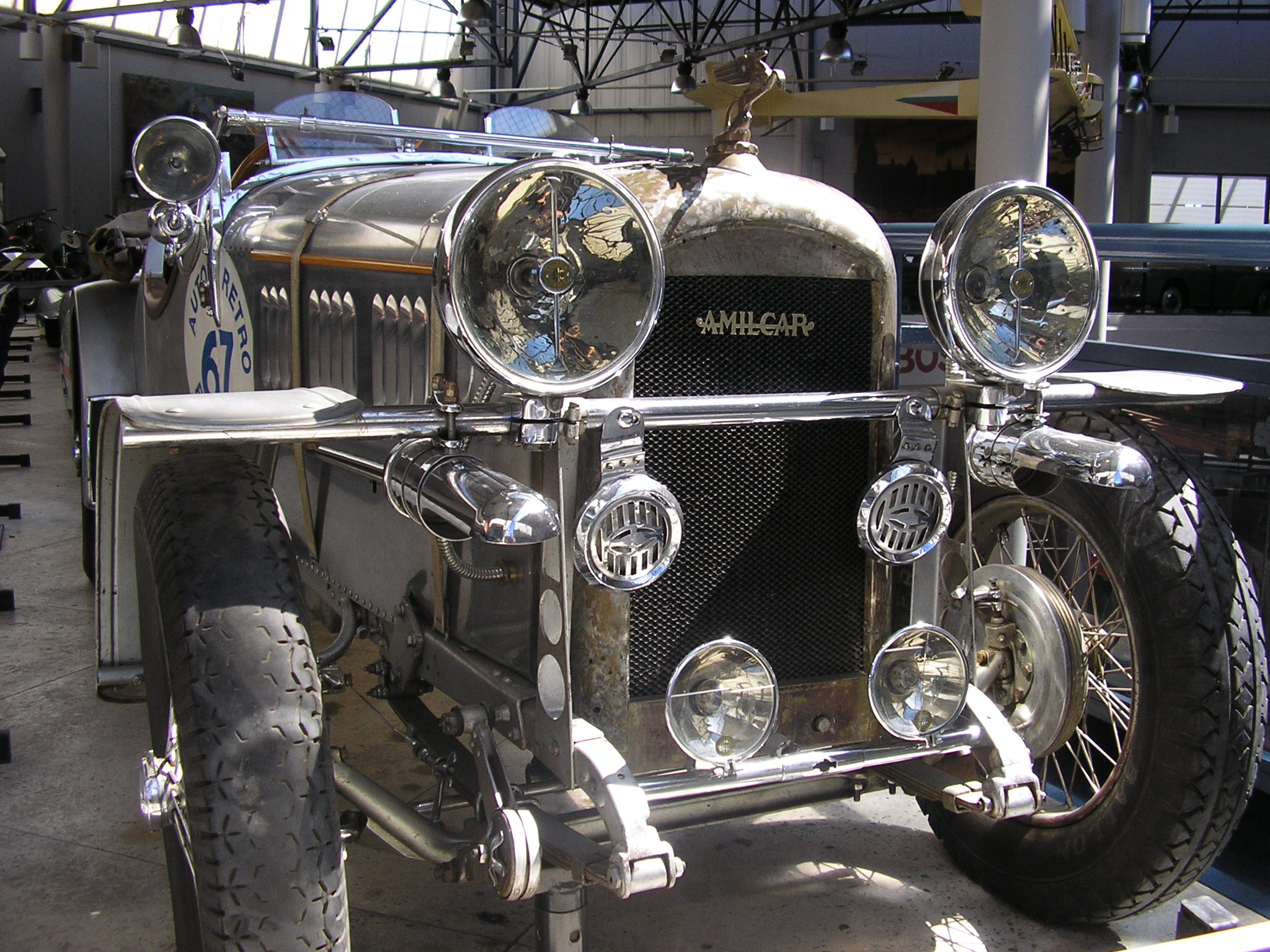 An 1924 Amilcar type C GS. The car in the picture was raced in the 1934 Monte Carlo "star race" by racer and yachtsman Eugen Kansky. In 1924 Eugen Kansky worked for Amilcar, but after the war he truend to yachting and became a USSR champion 16 times. The car was found in 1974, then quite rebuilt, but has since then been restored. It is powered by a 1074 cc four cylinder engine giving 30 hp and a top speed of 120 km/h.